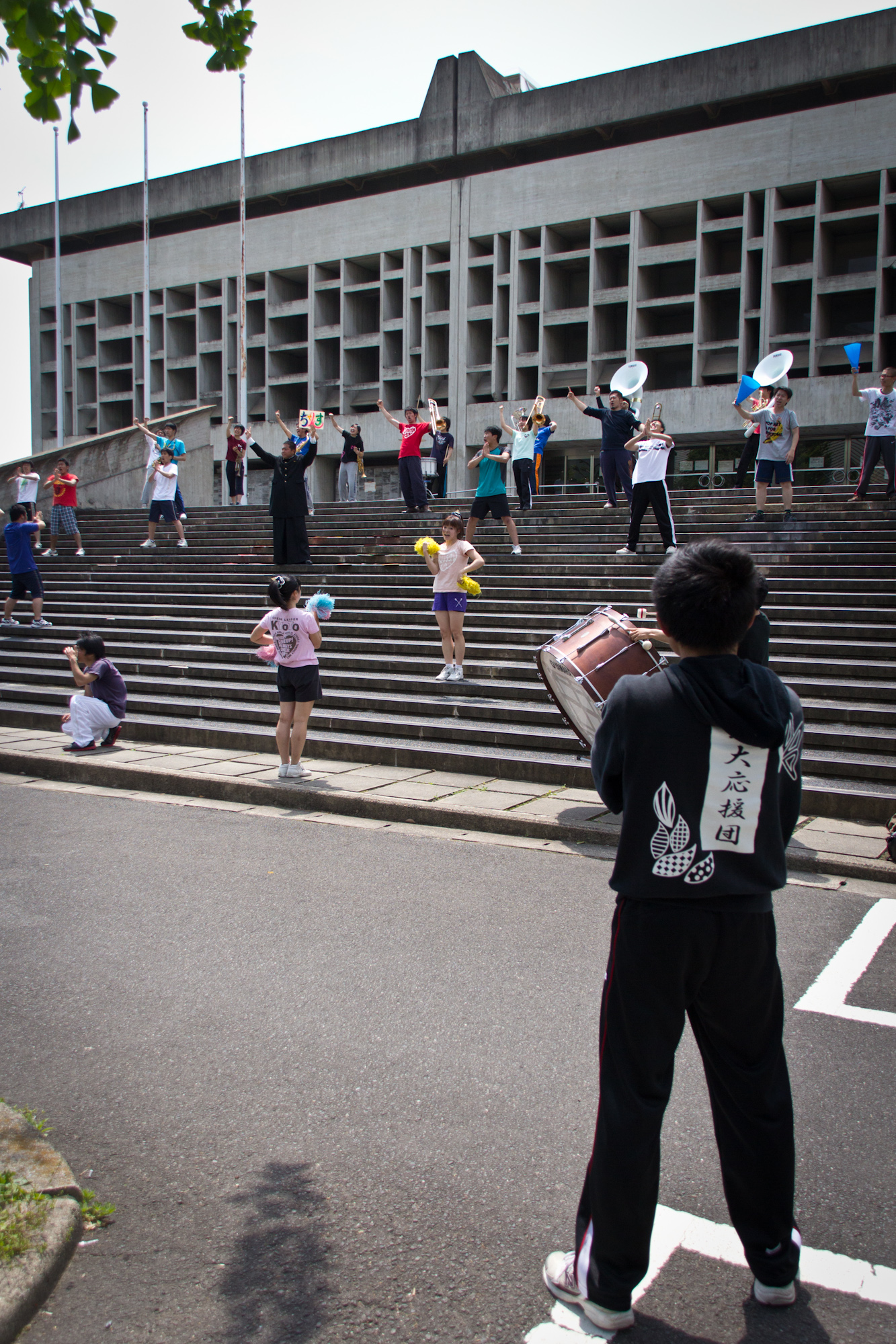 “Never give up! Always cheer up!” Cheerleading practise outside Kyoto University.